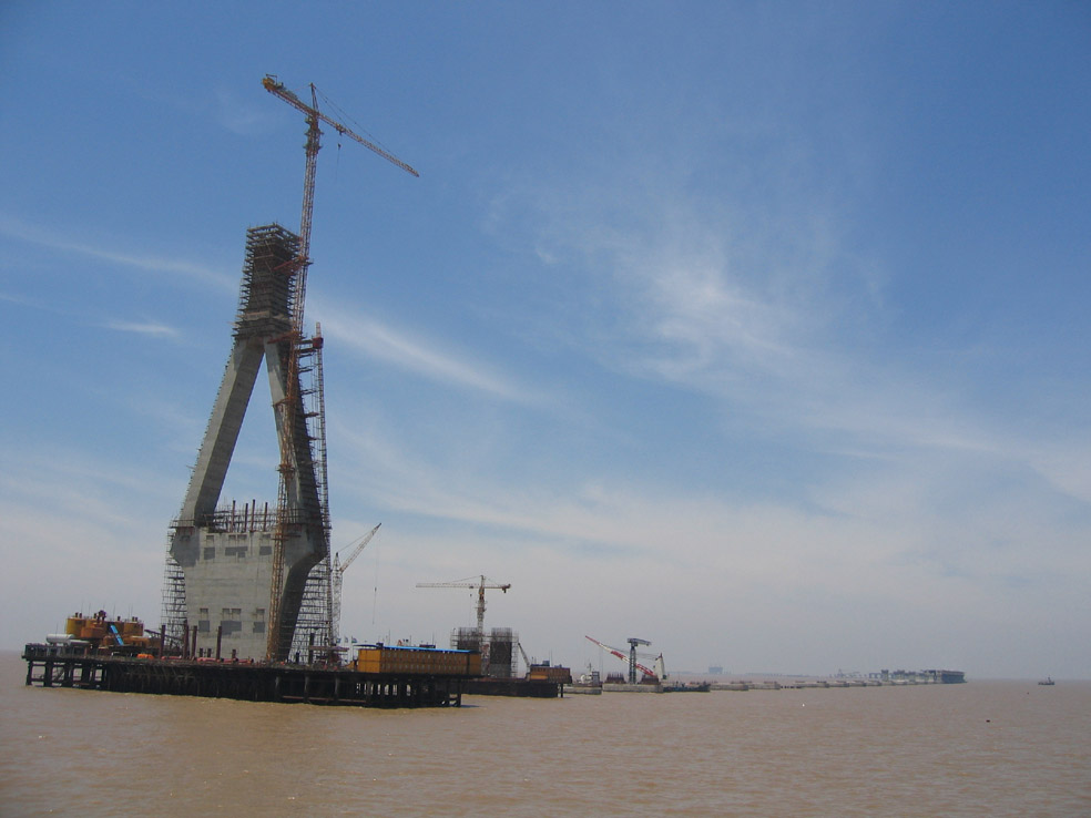 Made by Big boss 2007.